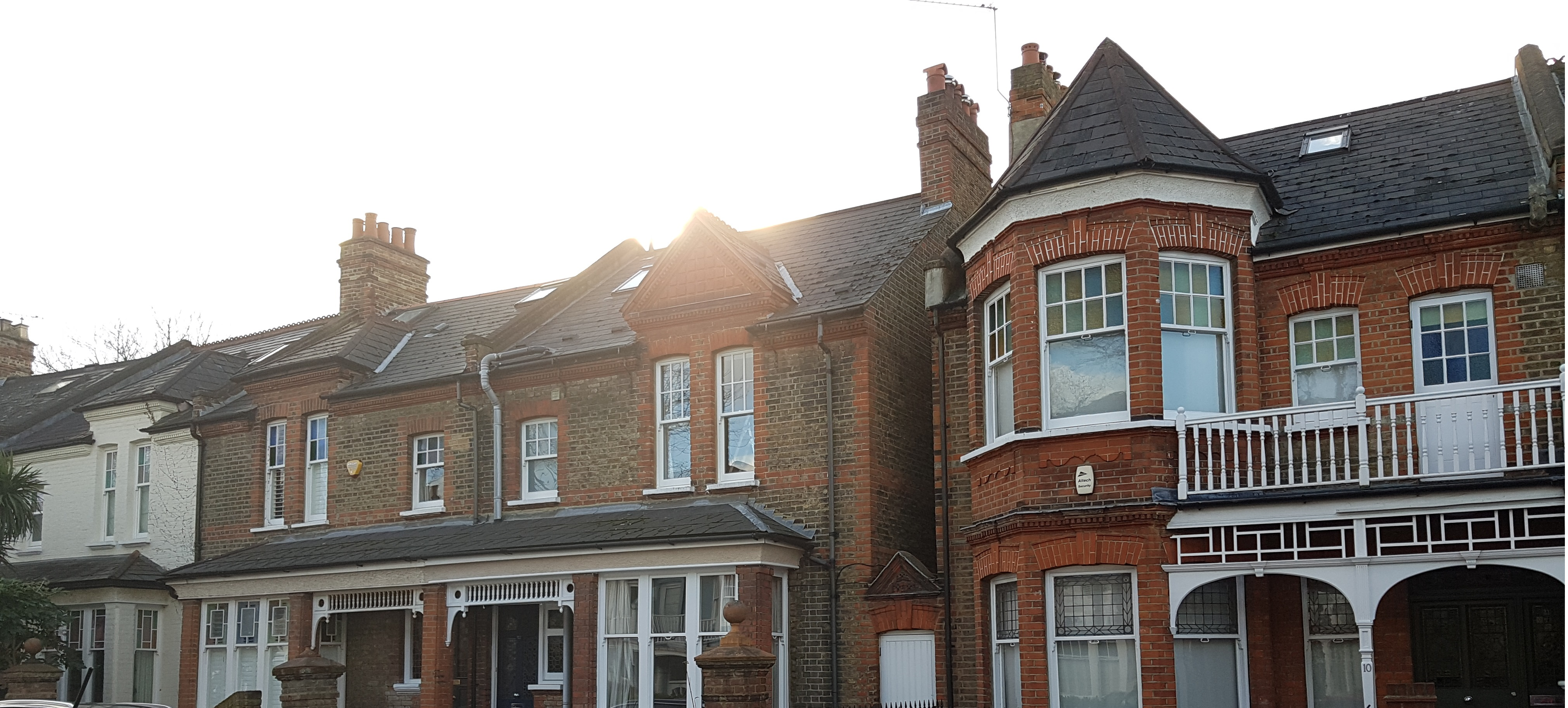 Housing